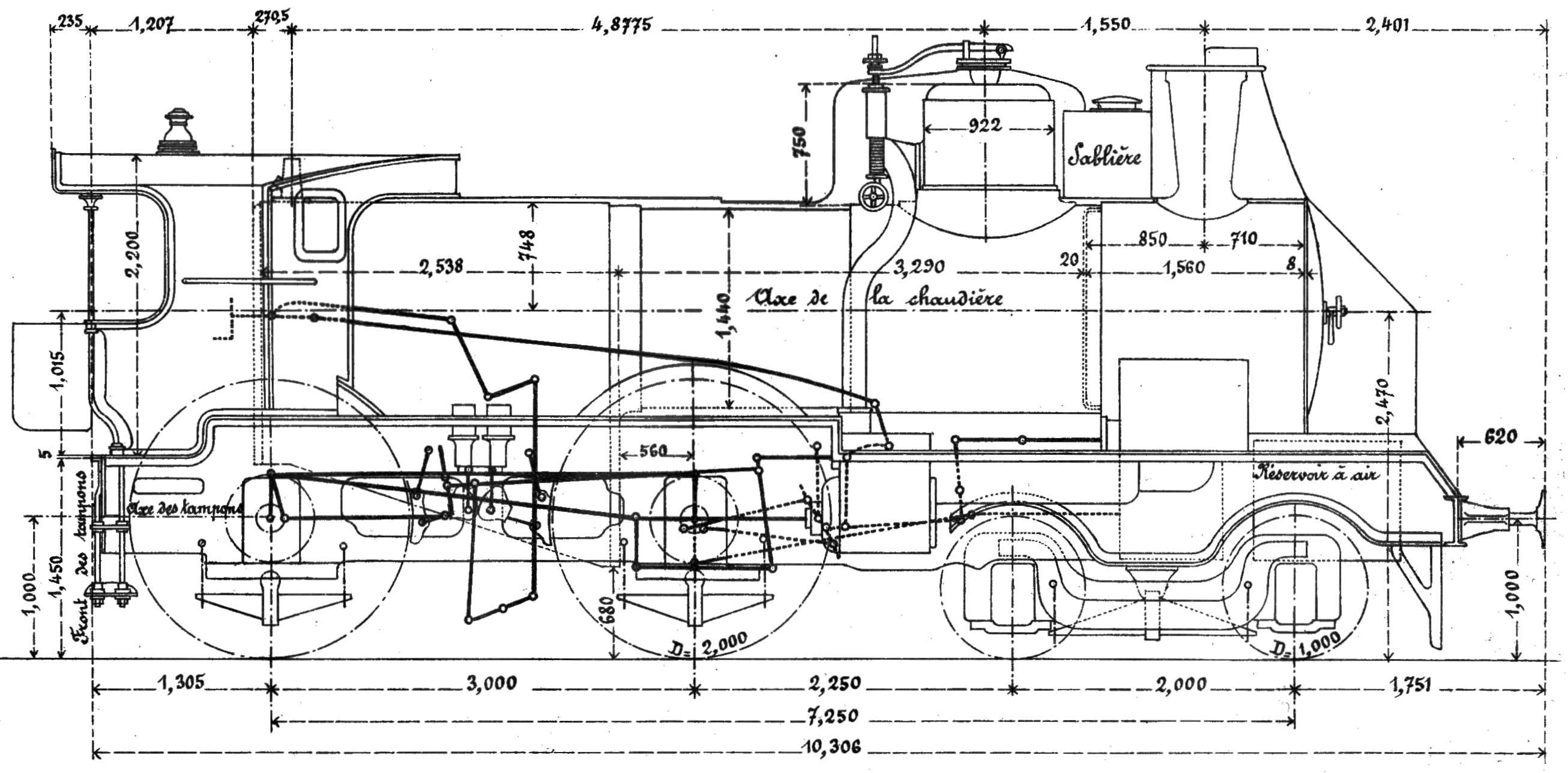 Drawing of steam locomotive PLM C 61 to 180